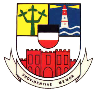 Coat of arms of Swakopmund, Namibia (until July 2009)